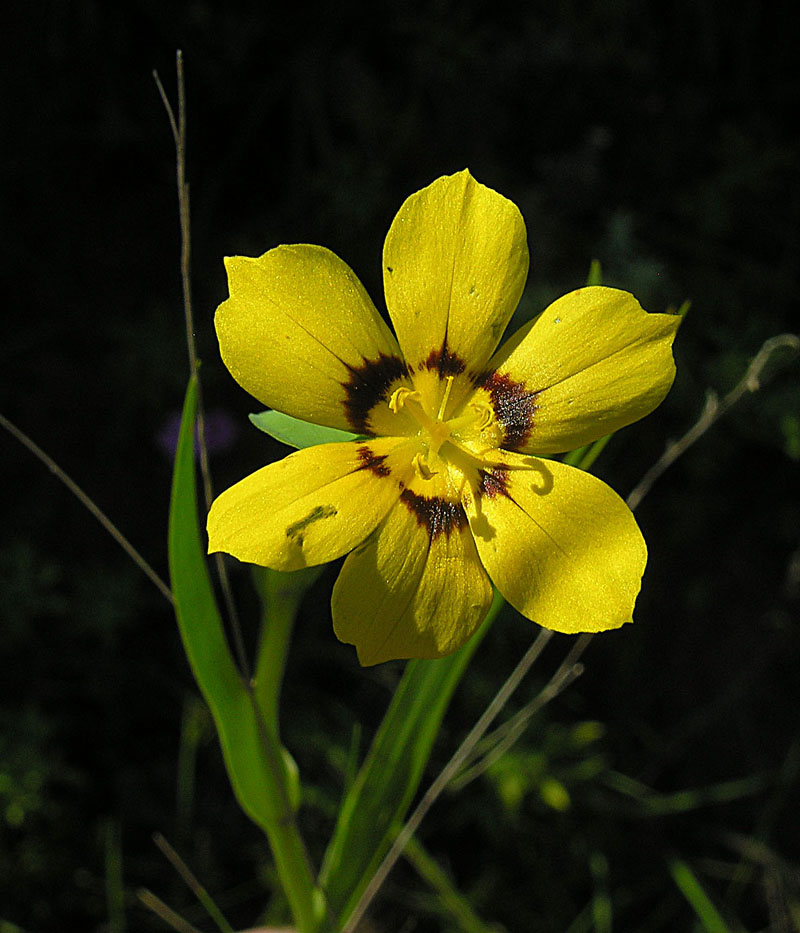 Mainly a Chilean species of "iris" with many synonyms. Here from near Curico. In context at